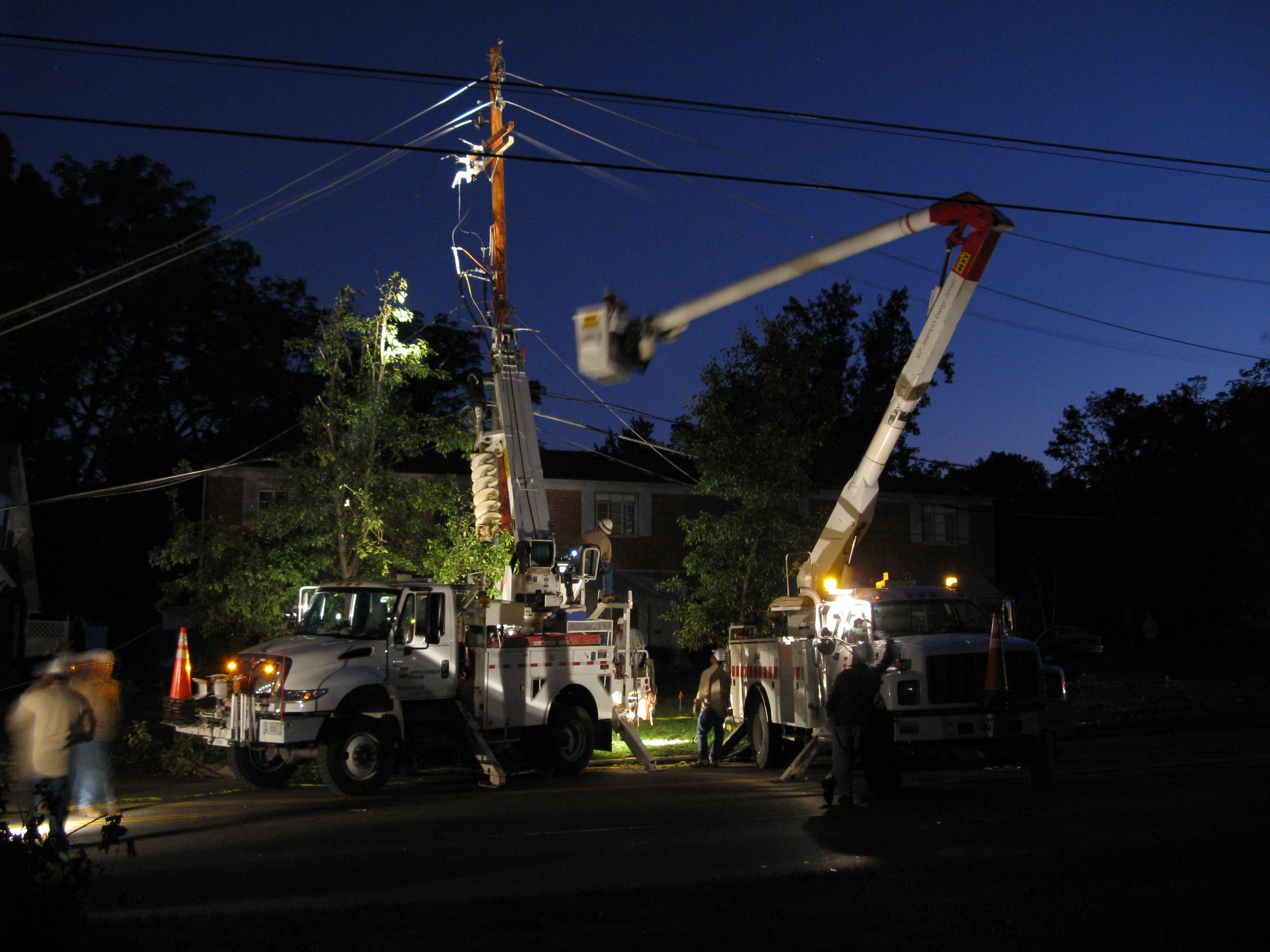 Visiting Appalachian Power crews from West Virginia working to restore power as dusk falls over a darkened downtown Worthington, OH, hit by the tail of Hurricane Ike.